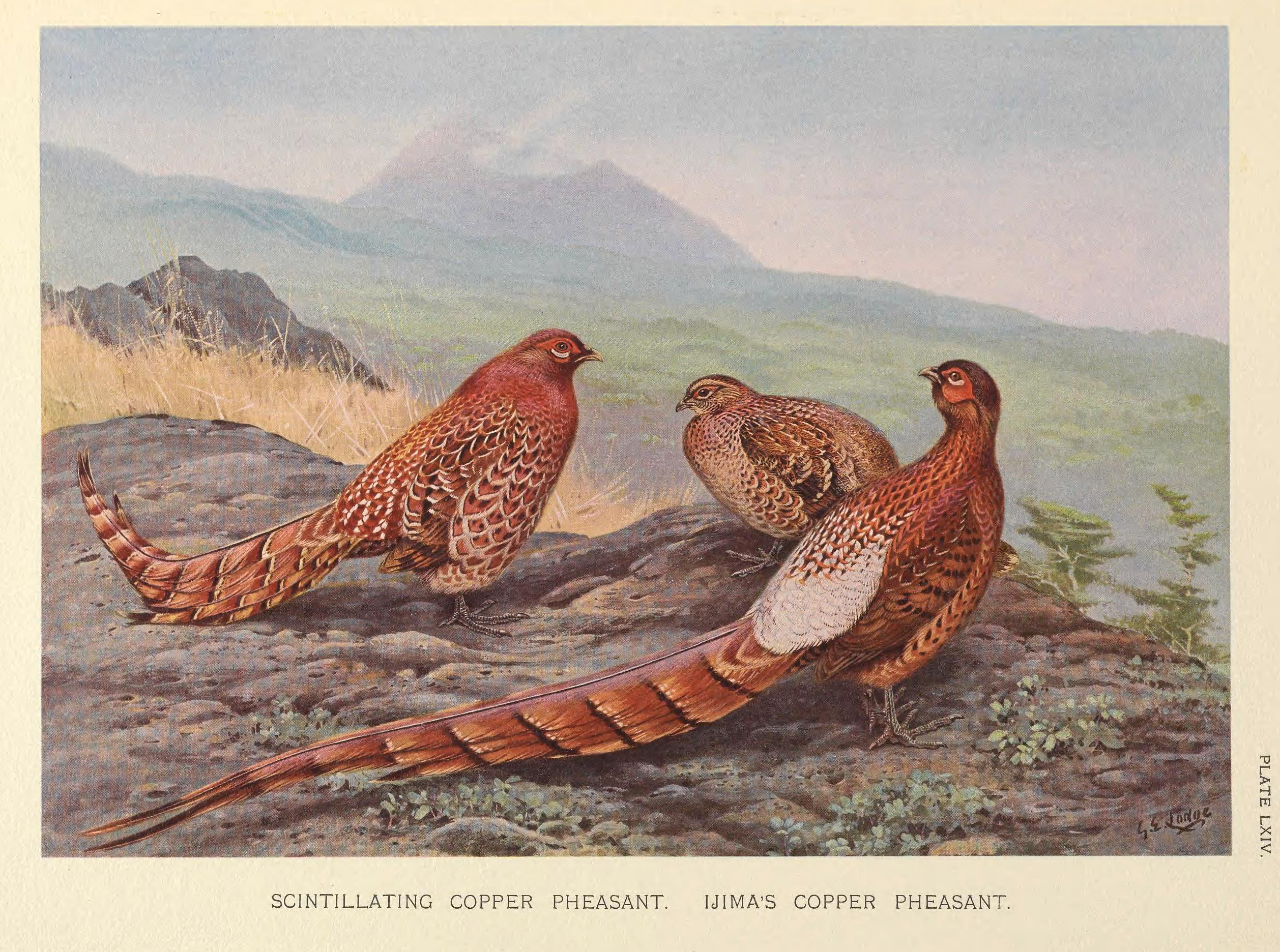 Left: Scintillating Copper Pheasant (Syrmaticus soemmerringii scintillans) Right: Ijima's Copper Pheasant (Syrmaticus soemmerringii ijimae)